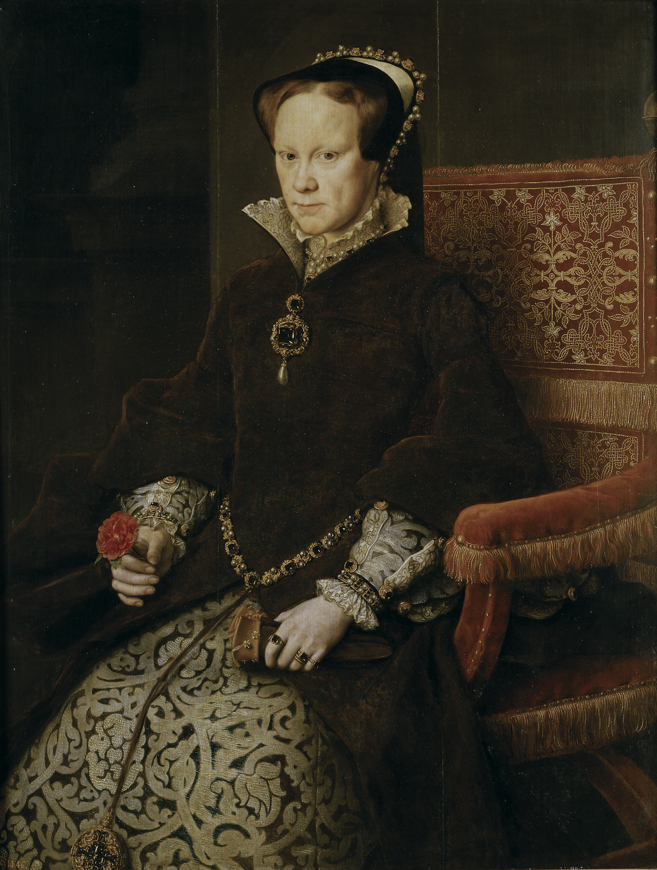 Portrait of Queen Mary I of England, by Antonis Mor, 1554.